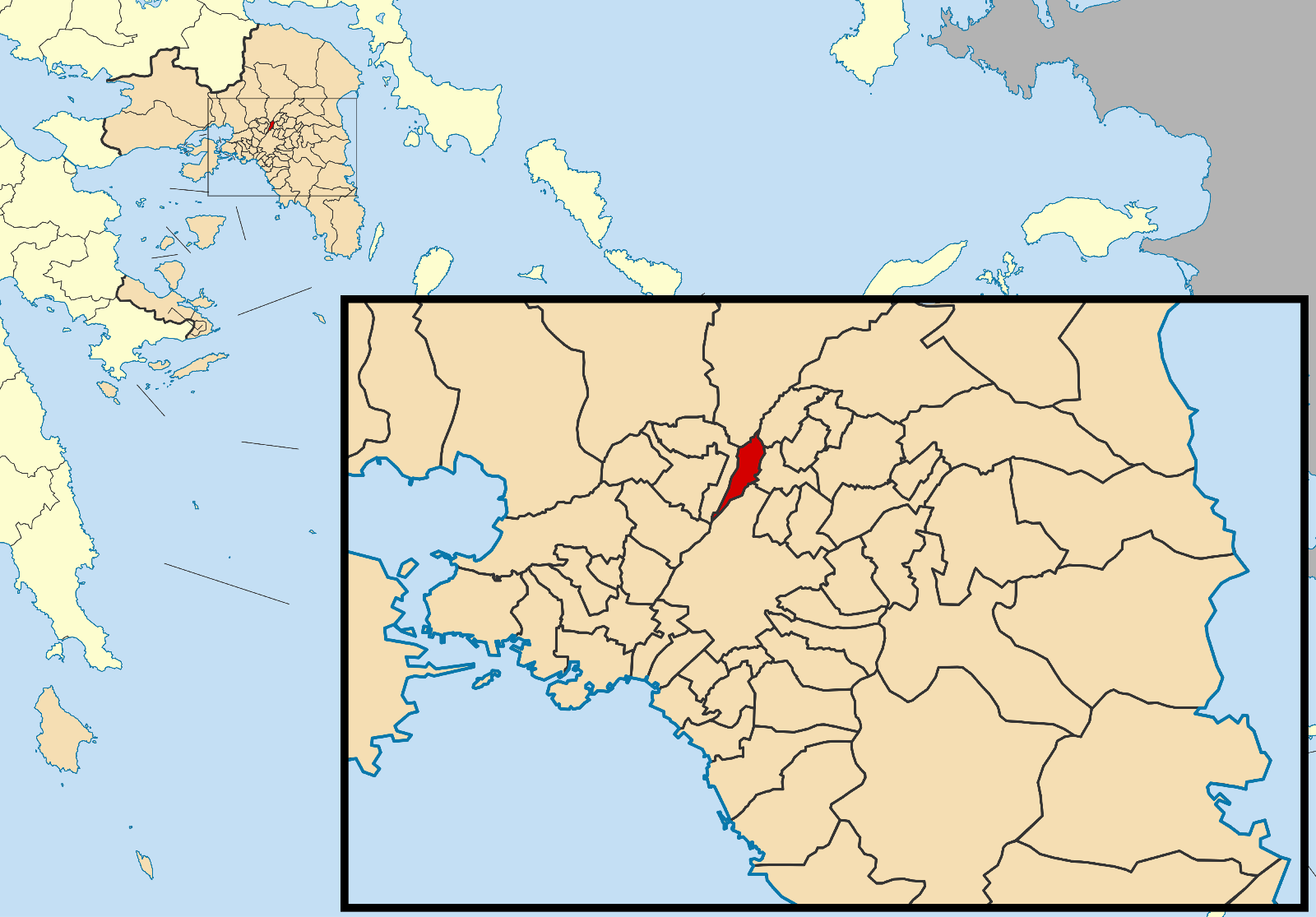 Locator map for Filadelfia-Chalkidona municipality in Greek region Attica (2011)